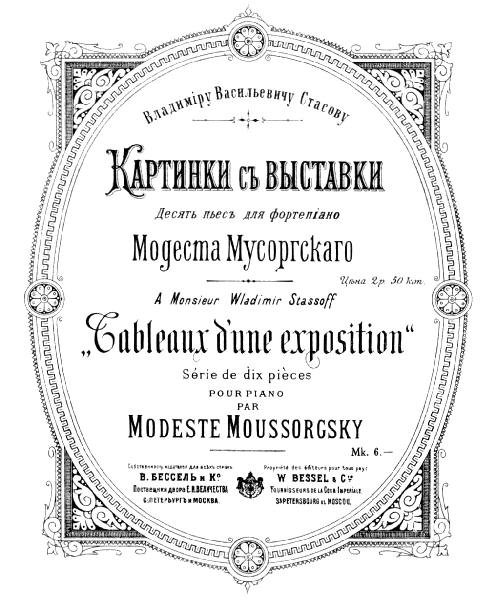 The cover of the first edition of Mussorgsky's Picture at the Exhibition (edited by Rimsky-Korsakov).